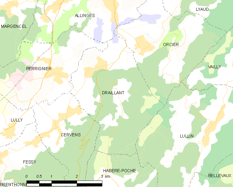 Map of French municipality Draillant